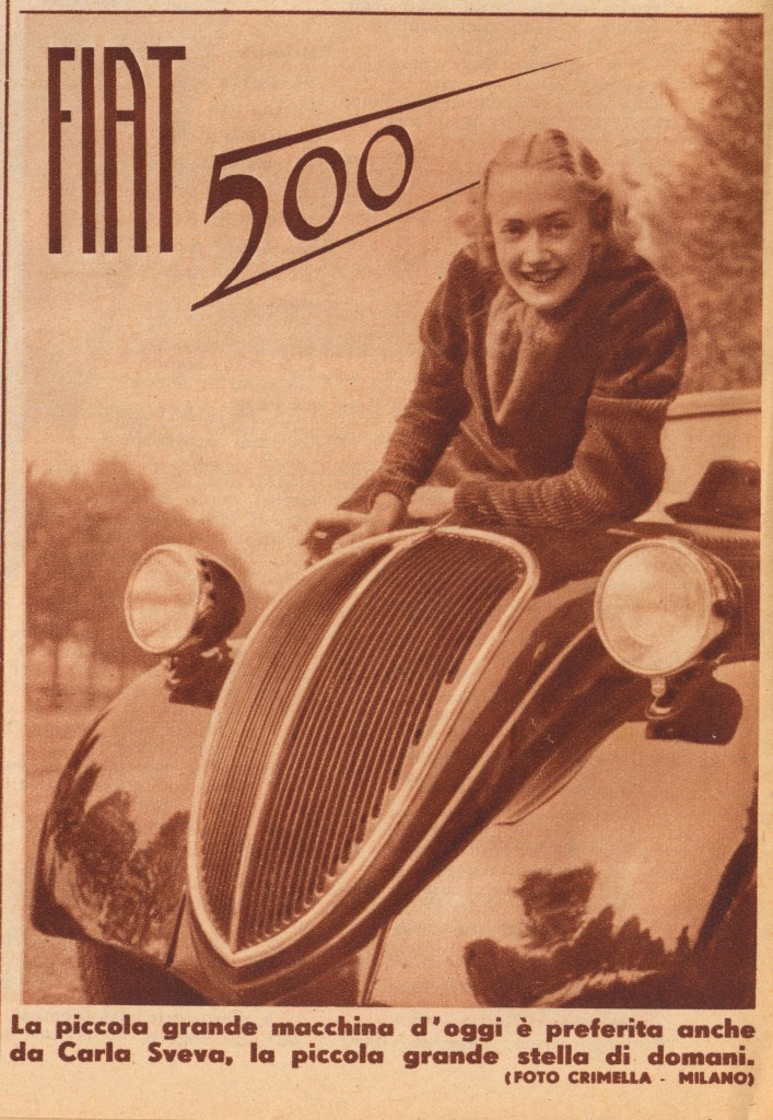 Fiat 500 Topolino. Advertising of 1936. Carla Sveva starred in ad.